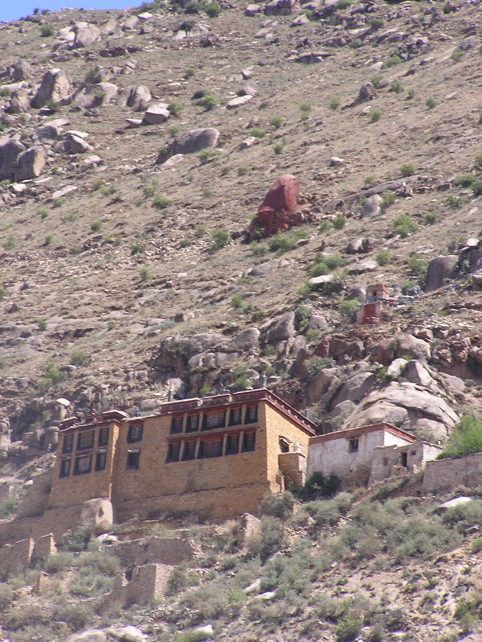 Retreat house of Sera Utsé Hermitage near Sera. Point 3.